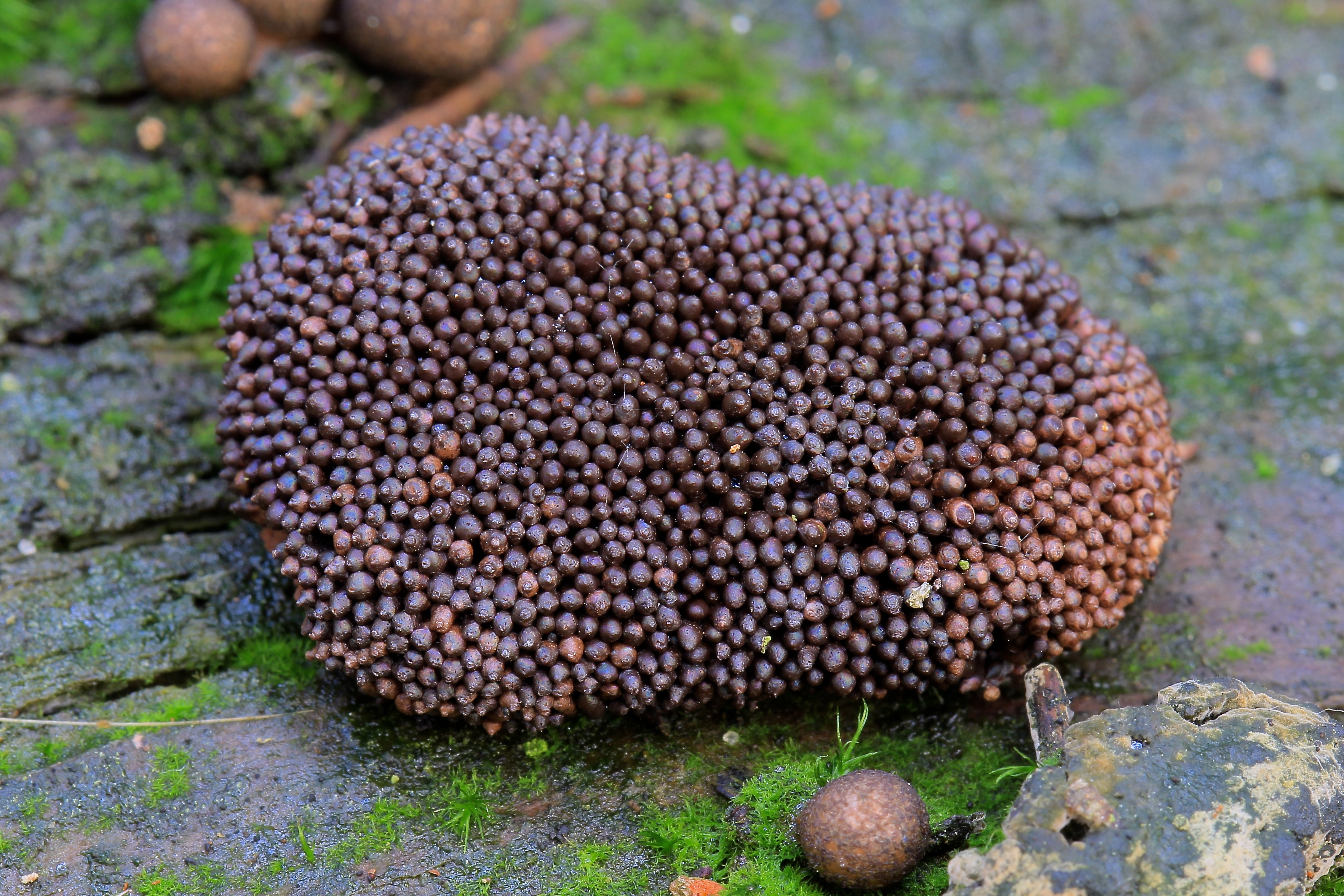 Tubifera ferruginosa, Raspberry Slime Mould, in Trent Park, London Borough of Enfield, UK. (below is the same one 3 days earlier)